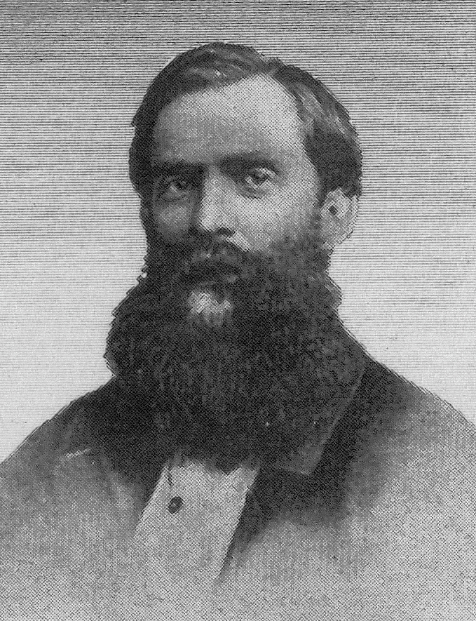 Phi Kappa Psi founder William Henry Letterman from the 1902 Van Cleve history of the fraternity